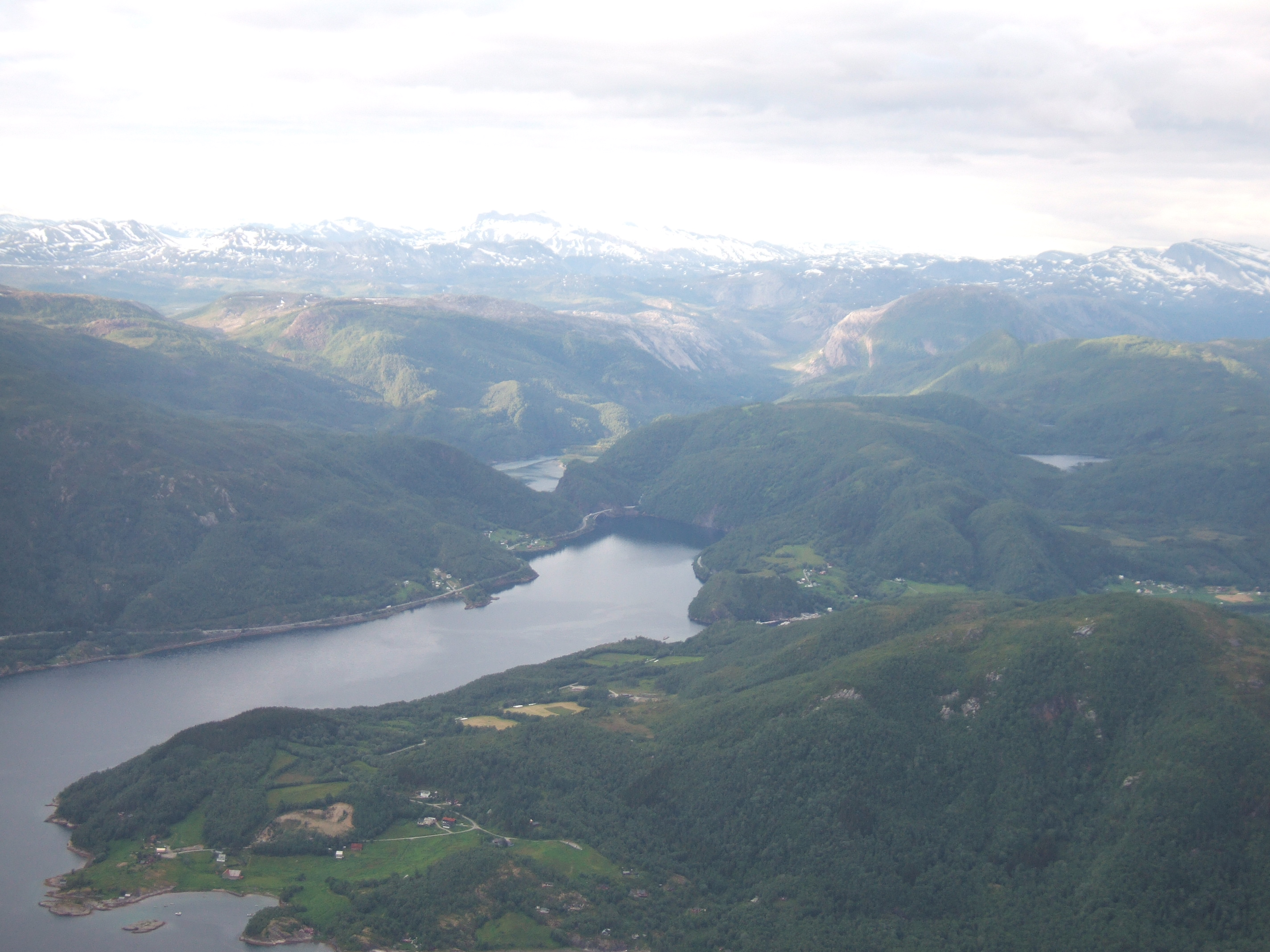 Tørrfjorden in Sørfold, Nordland, Norway.